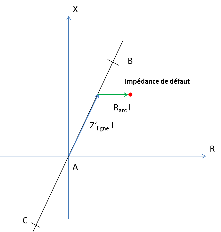 Influence of the arc resistance on the impedance seen by the distance protection relay.